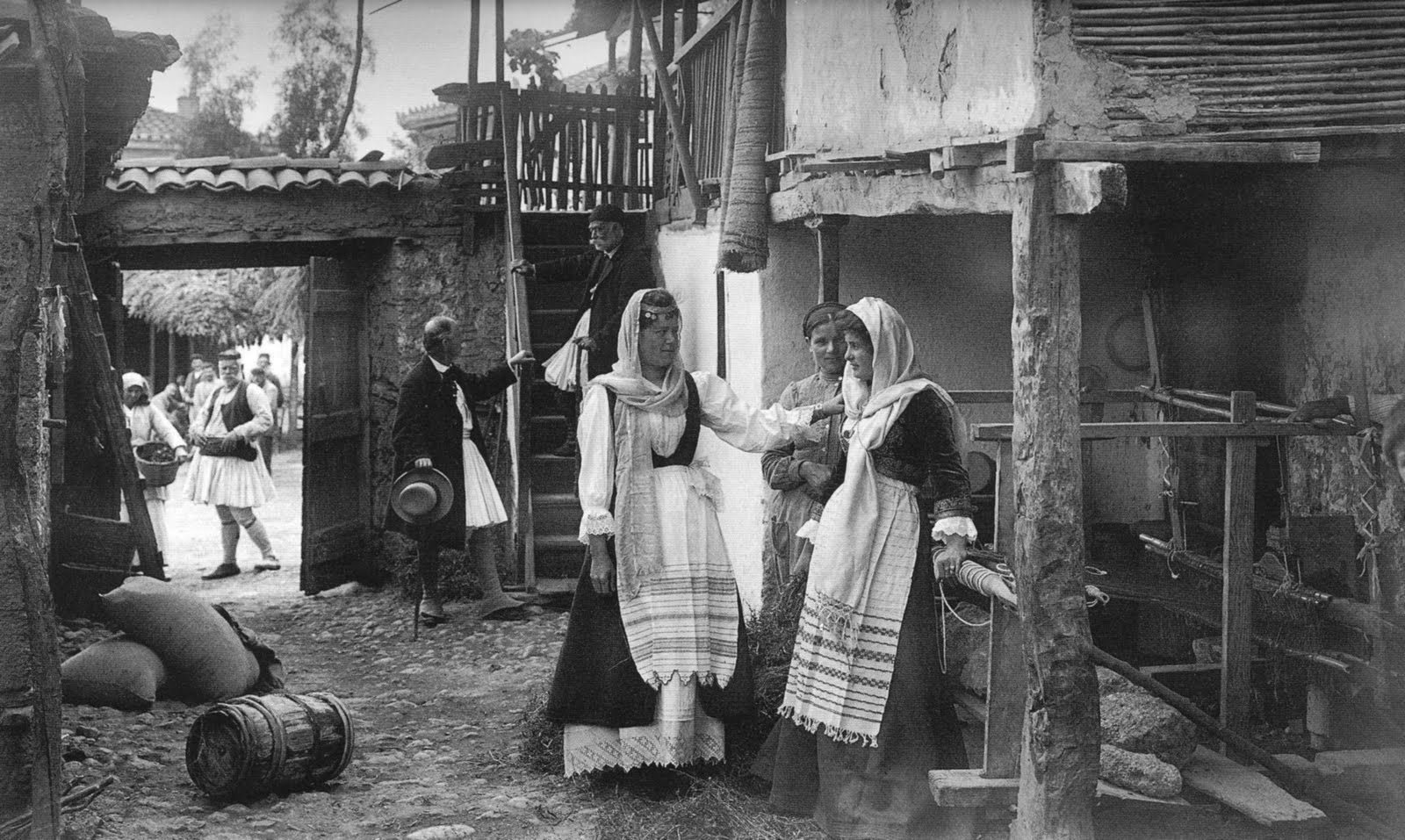 A yard Acrata Achaea, circa 1903